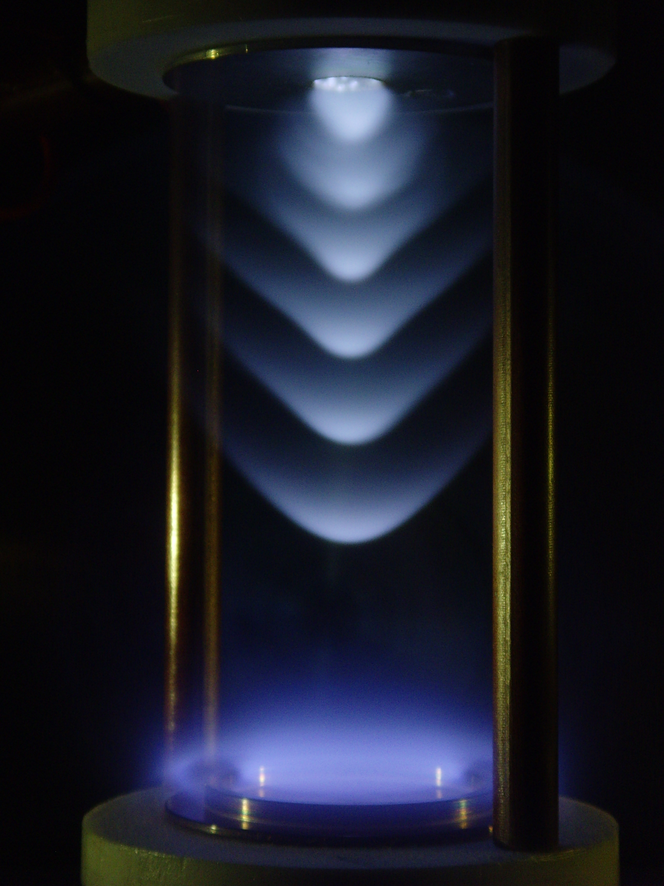 Glow discharge without walls